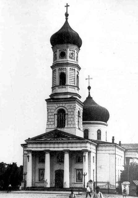 Mariupol old church